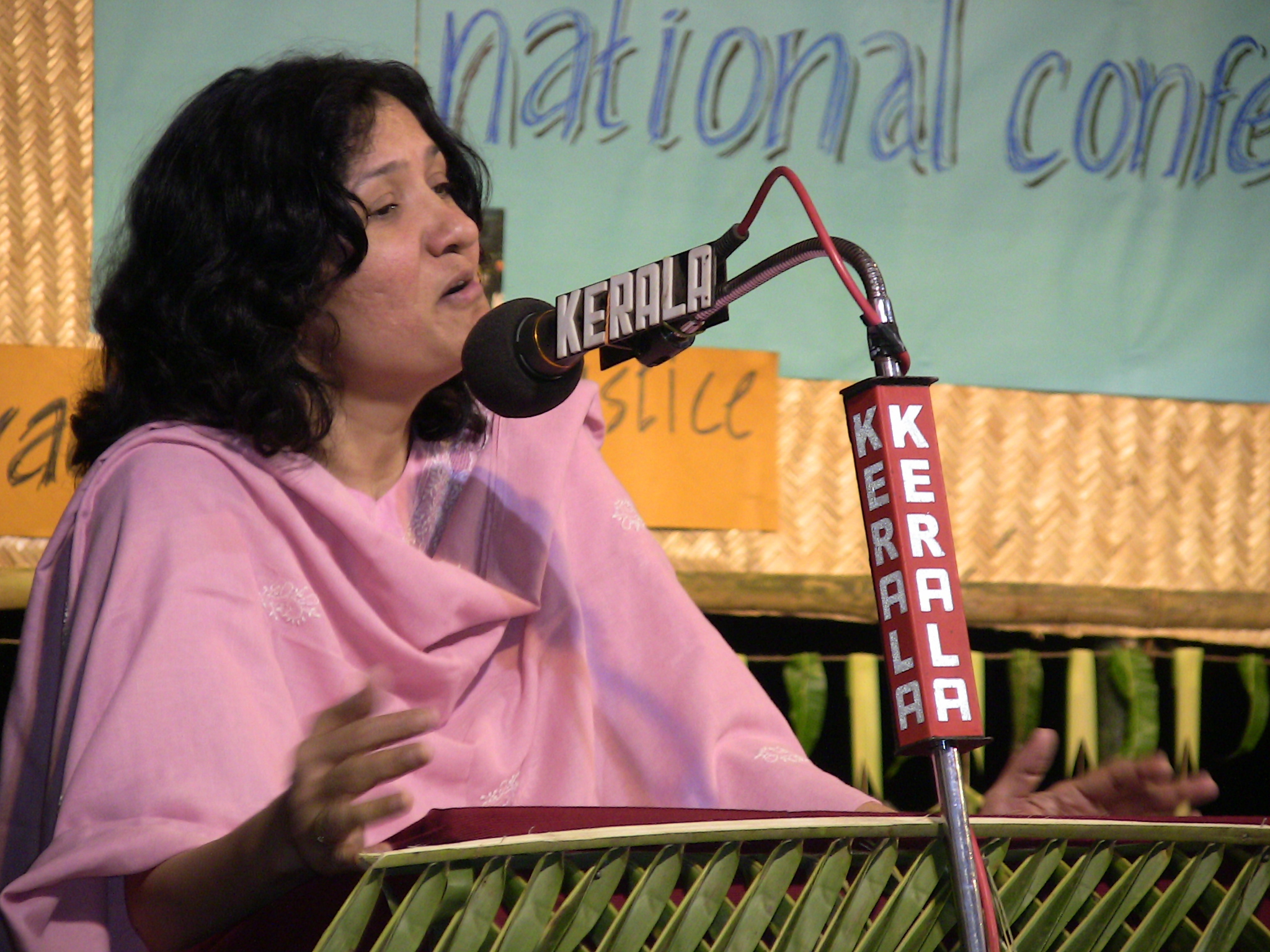 Zakia Soman is a founder member of Bharatiya Muslim Mahila Andolan, a community platform with over 20,000 members